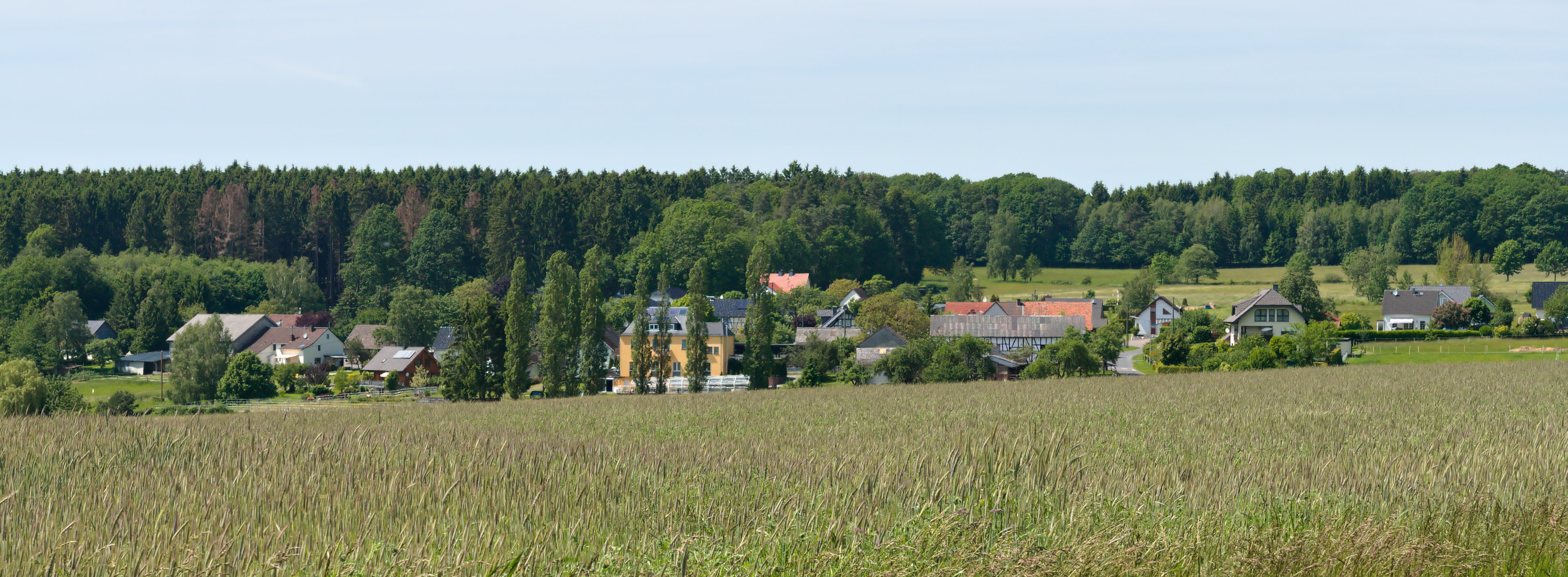 View over Nassen village, Racksen municipality, Kreis Altenkirchen (Westerwald), Germany